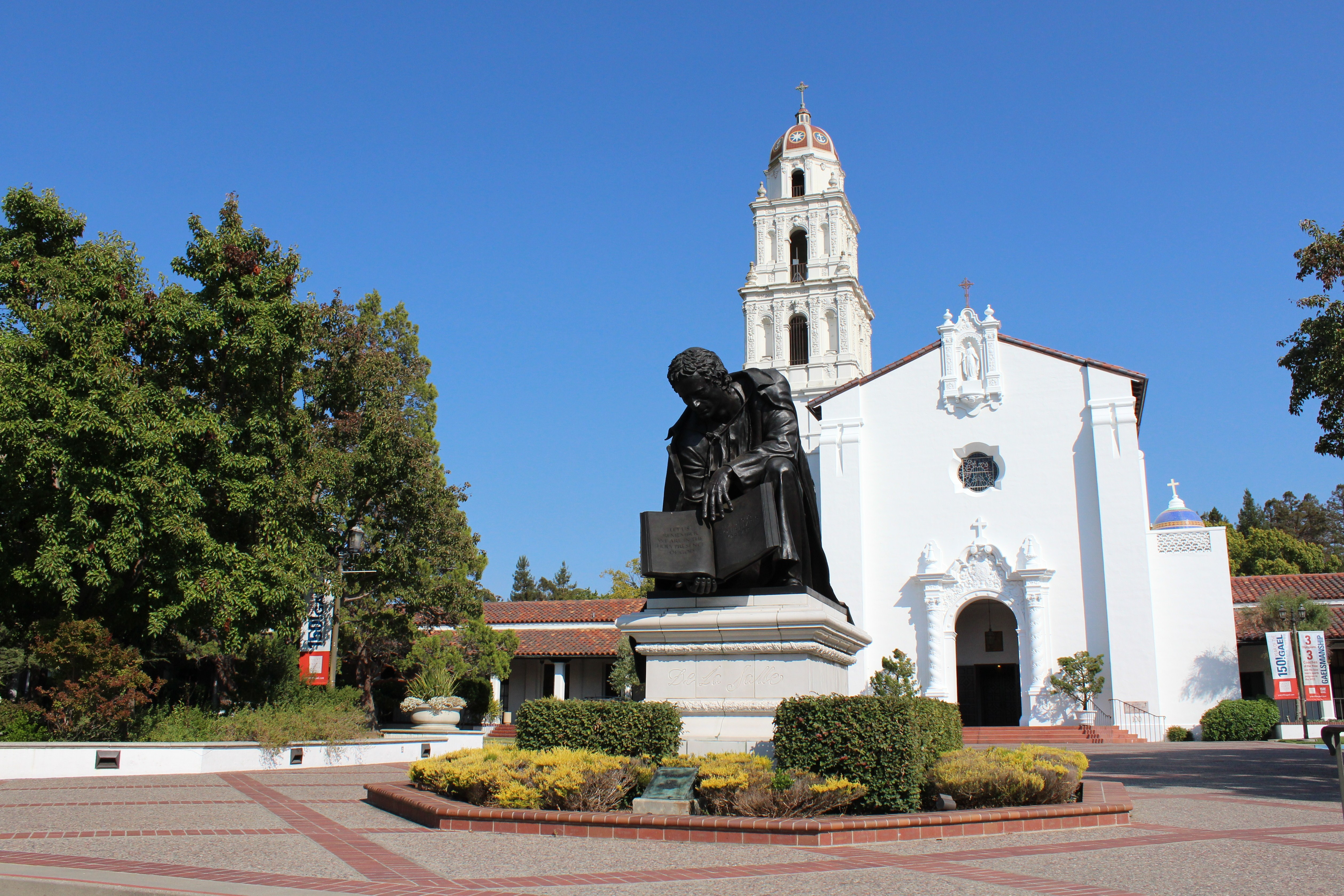 Moraga, CA USA - Saint Mary's College of California - St. Giles Episcopal Church